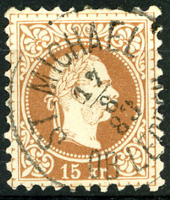 Stamp of Austria, issue 1874, cancelled at St Michael ob Leoben (Styria) in 1883